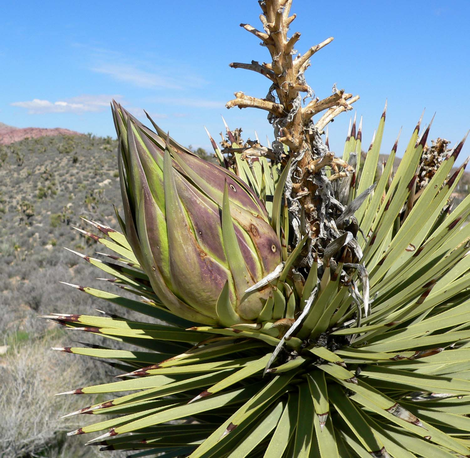 Photo of Yucca brevifolia (Joshua tree) about to bloom, in Red Rock Canyon, Nevada